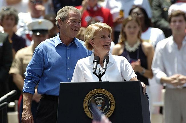 Congresswoman Shelley Moore Capito introduces President George W. Bush during his visit to West Virginia on the Fourth of July 2004 to honor our Veterans and discuss the War on Terror.